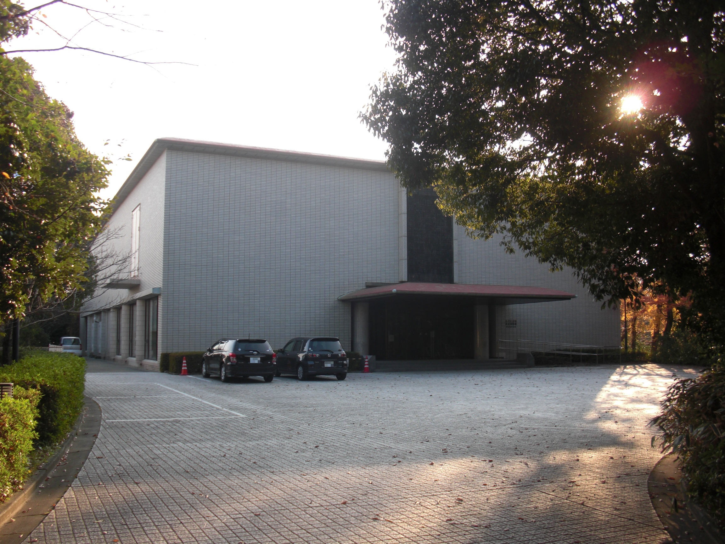 This is the Museum of Shinto and Japanese Culture, Kogakkan University in Ise, Mie, Japan.